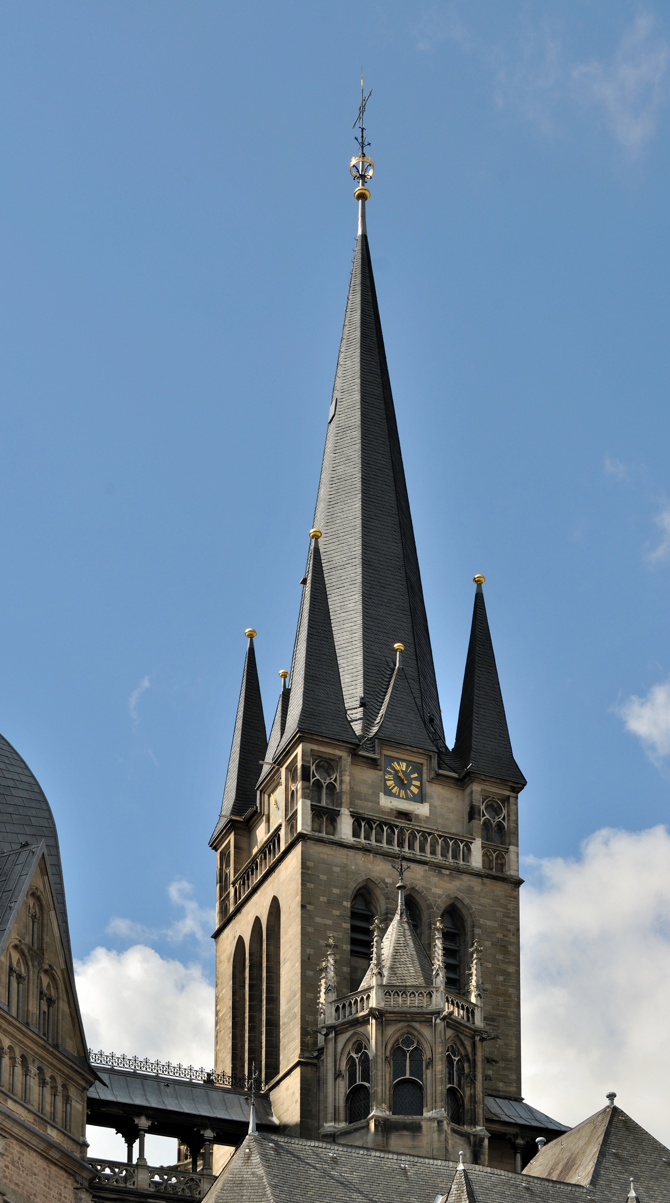 Aachen (North Rhine-Westphalia, Germany) – Aachen Cathedral – north side of the west towerThis photograph was taken with a Nikon D3000